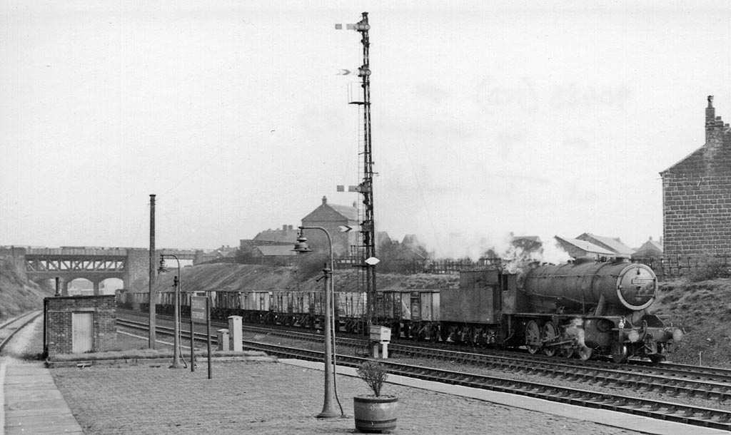 Eastward from Thornhill Station, with westbound coal train. View eastward, towards Wakefield, Normanton etc.; ex-Lancashire & Yorkshire Calder Valley main line (Normanton - Wakefield - Sowerby Bridge - Manchester). In the background are the bridge of the ex-Midland branch from Royston to Dewsbury (Savile Town), closed 18/12/50. Thornhill (L&Y) Station was closed 1/1/62 (goods 30/9/63), but the main line remains open